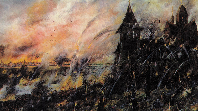 Vasily Sergeievich Smirnov (1858-90). Tokhtamysh's Invasion of Russia.